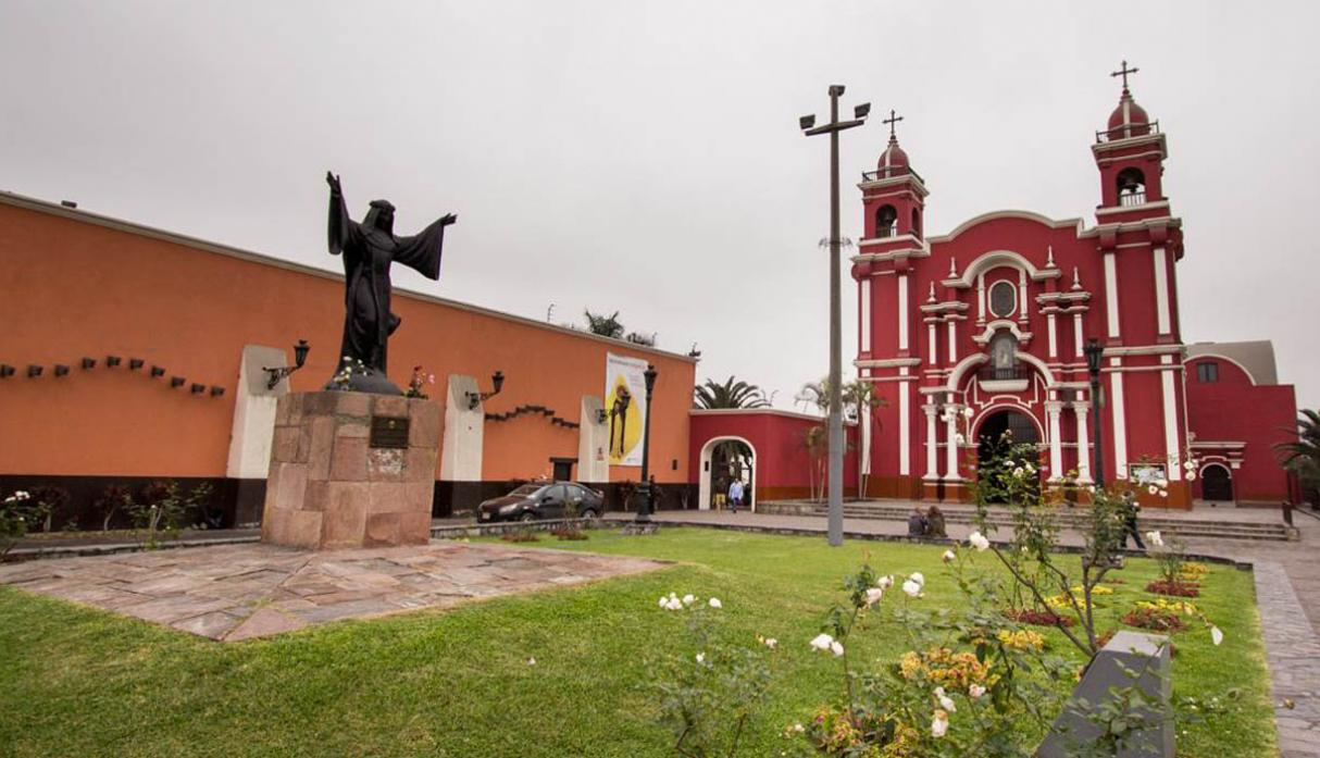 Saint Rose of Lima Sanctuary, Temple and Convent